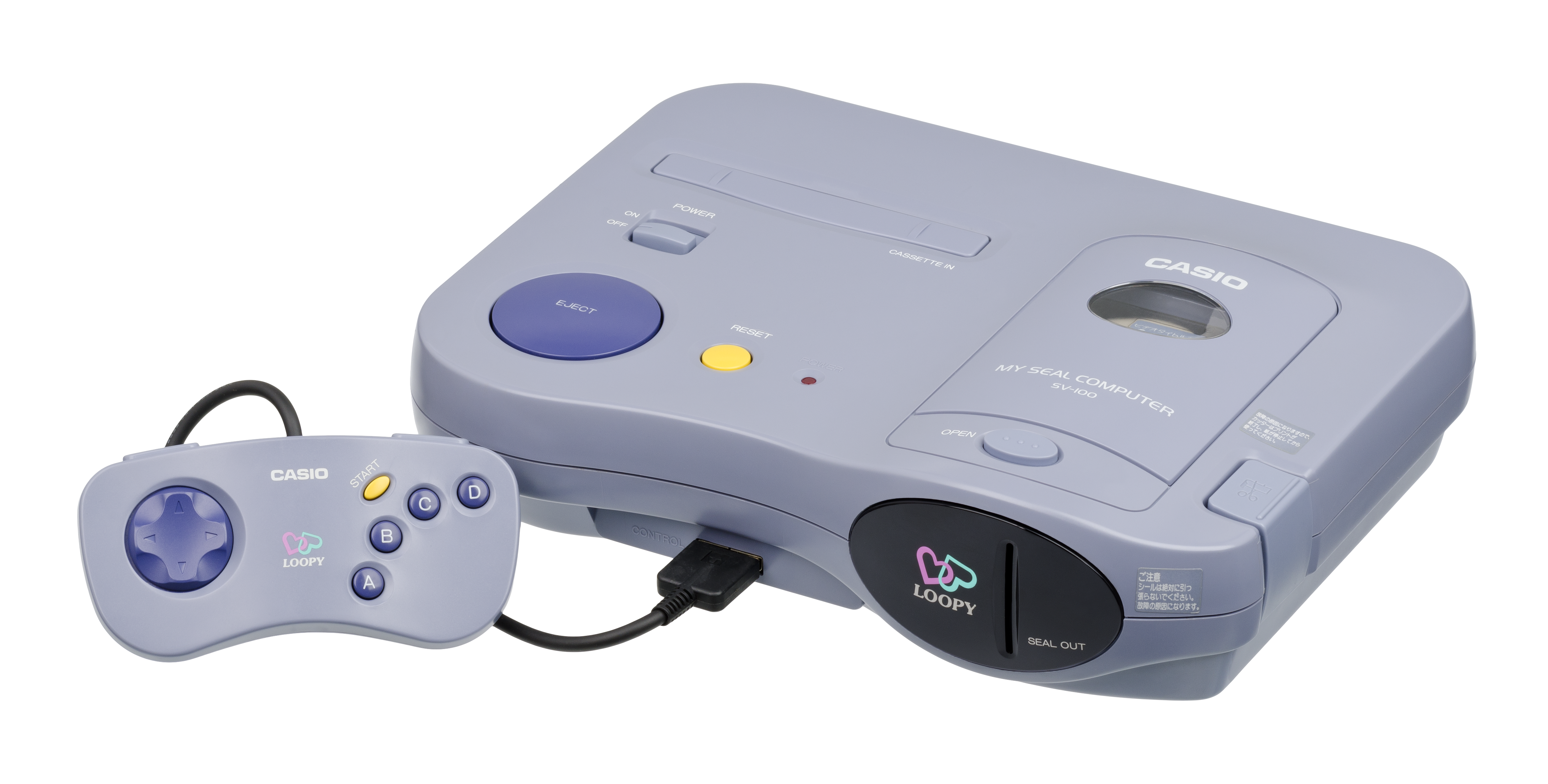 The Casio Loopy, a 1995 video game console only released in Japan that was marketed to girls and could print stickers.